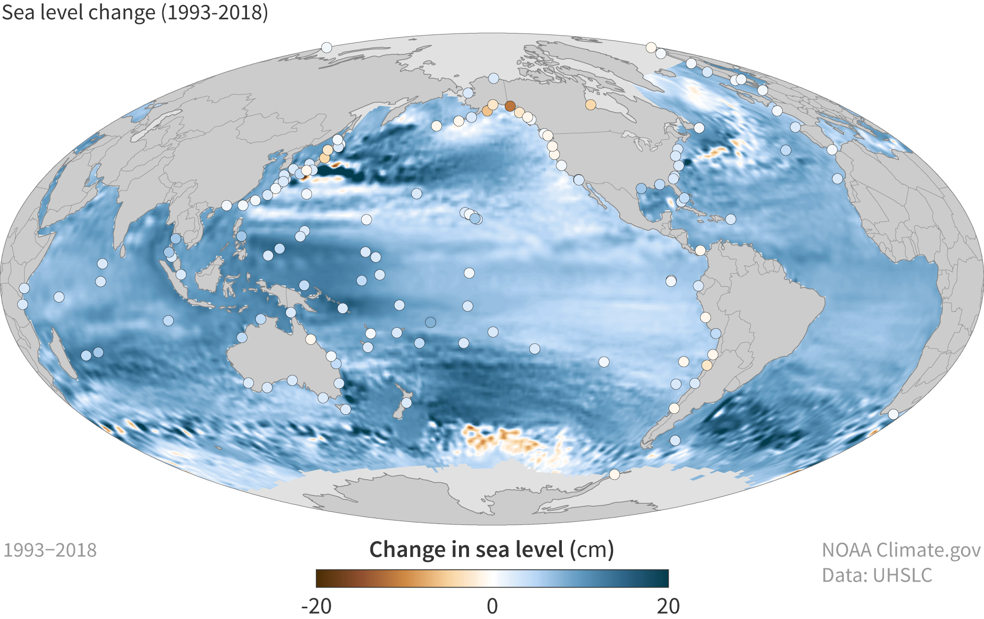 Between 1993 and 2018, mean sea level has risen across most of the world ocean (blue colors). In some ocean basins, sea level has risen 6-8 inches (15-20 centimeters). Rates of local sea level (dots) can be amplified by geological processes like ground settling or offset by processes like the centuries-long rebound of land masses from the loss of ice age glaciers. NOAA map, based on data provided by Philip Thompson, University of Hawaii.